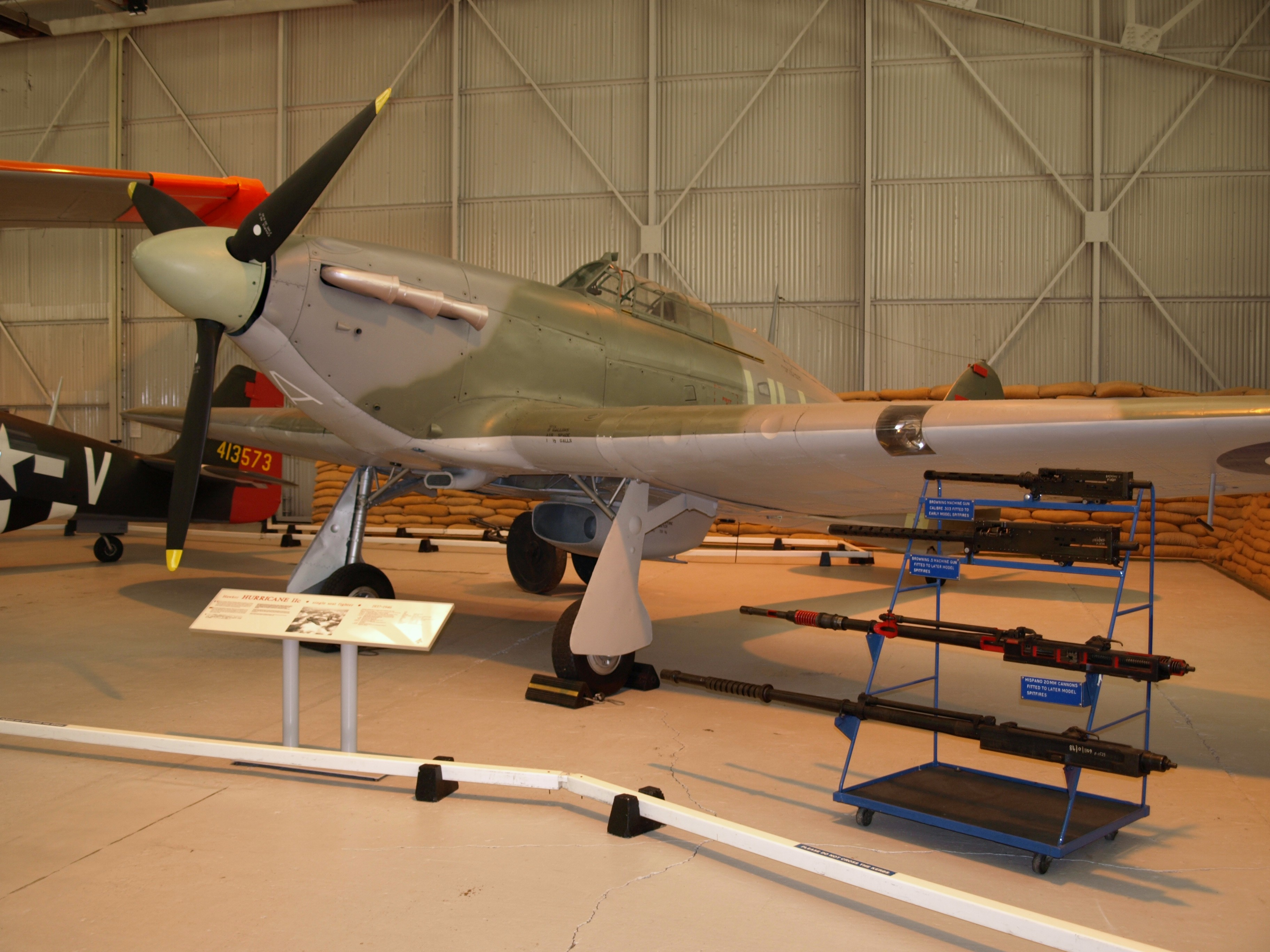 Hawker Hurricane aircraft on display in the War Planes hangar at Royal Air Force Museum Cosford.